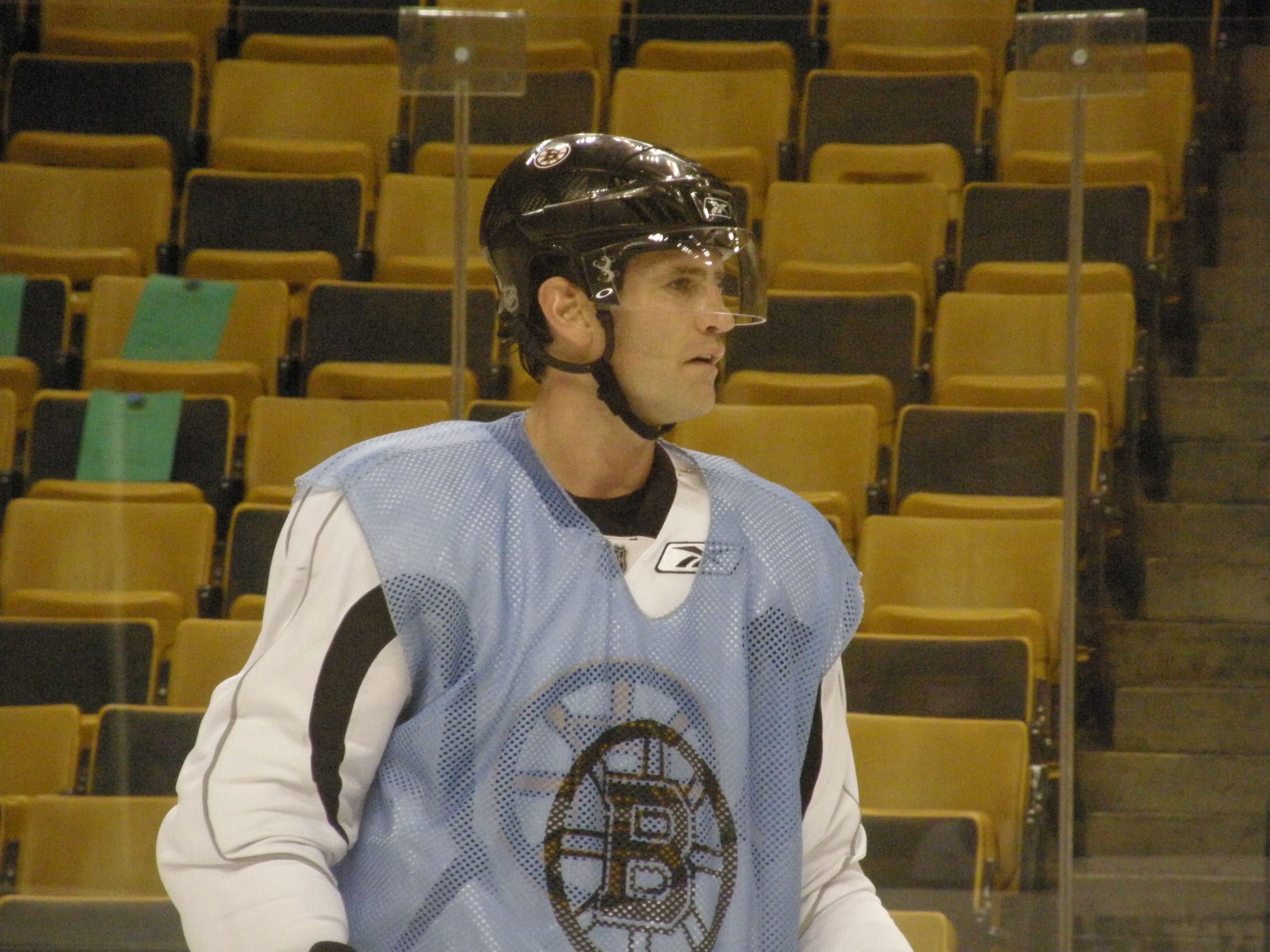 Stephane Yelle from the Boston Bruins during practice